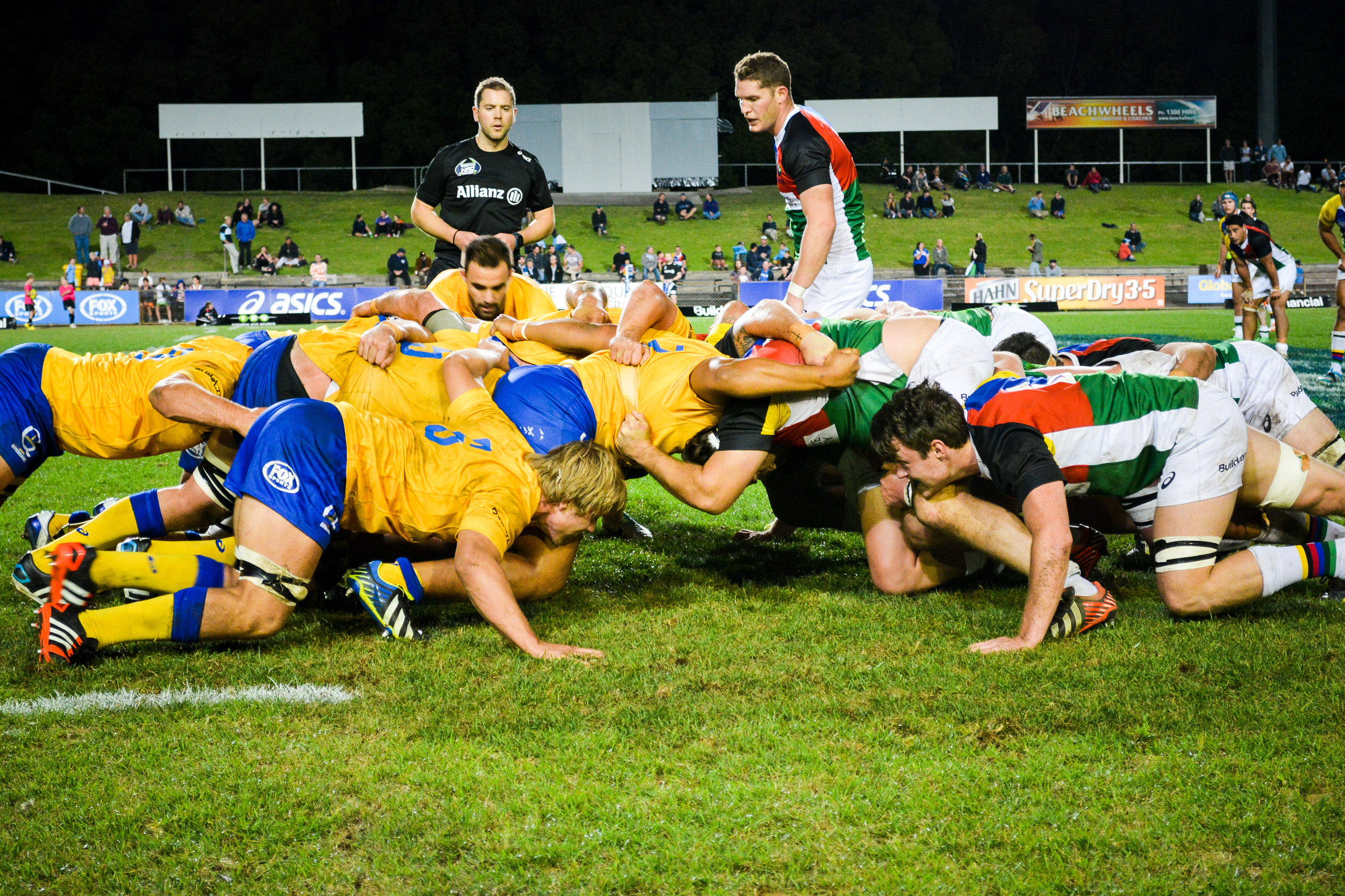 Brisbane City versus North Harbour Rays NRC Round 8